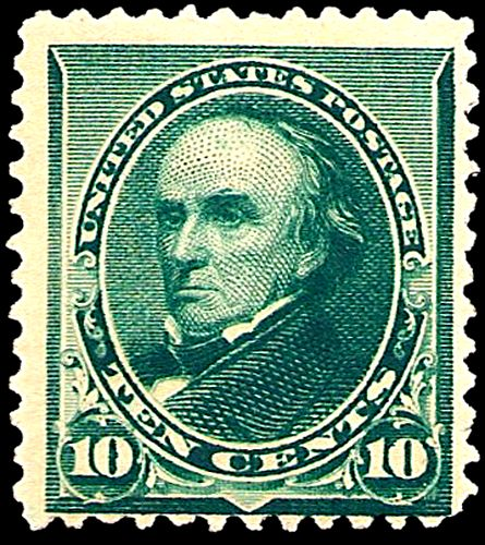 US Postage stamp, Daniel Webster, issue of 1890